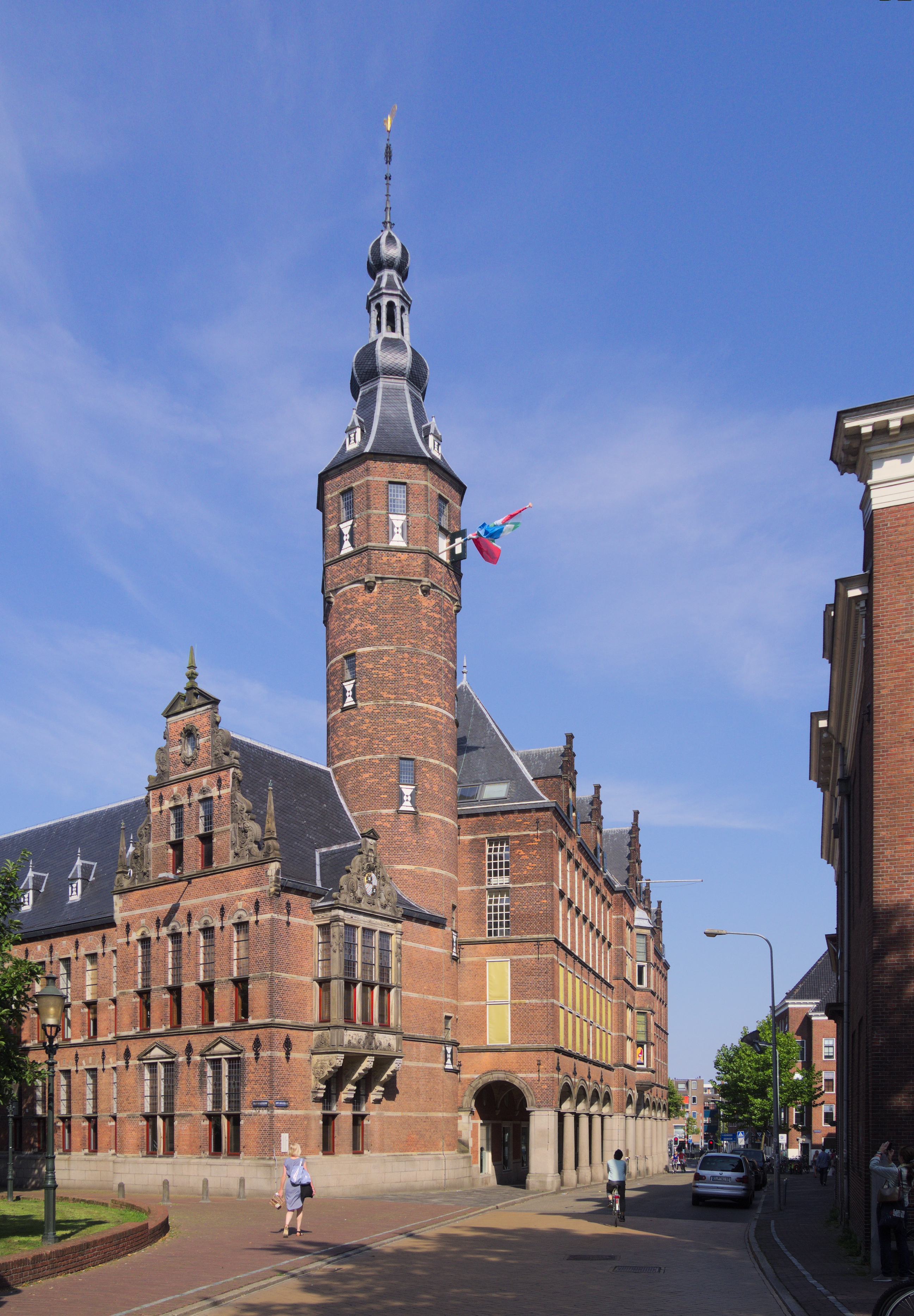 Province house of Groningen, as seen from Martinikerkhof street.